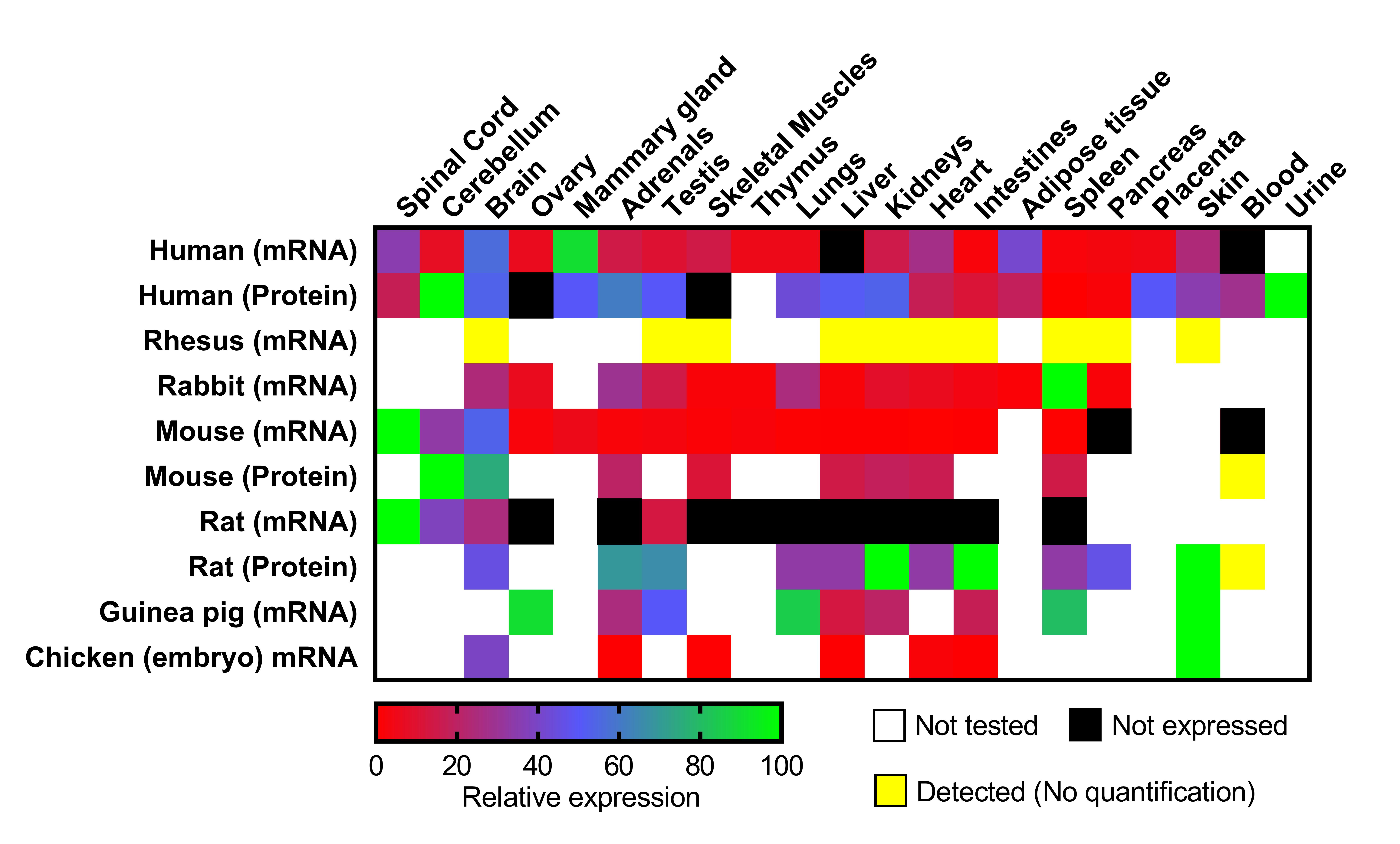 Relative ApoD mRNA and protein expression in tissues of different species. ApoD expression in the figure is an average value from the literature. ApoD expression in a tissue is expressed as a percentage of the strongest ApoD tissue expression for that species. Tissue expression between different species should not be compared as they are only relative to their own species. Tissues in which ApoD was detected but not quantified are noted in yellow. Expression data were obtained from multiple sources: Human: (Uhlen et al. 2015) data available at (Fishilevich et al. 2016; Ben-Ari Fuchs et al. 2016) data available at (Séguin et al.,1995; Drayna et al. 1986); Rhesus (Smith et alo., 1990); Rabbit (Provost et al. 1990); Mouse (Séguin et al., 1995; Do Carmo et al. 2009a; Li et al. 2016; Cofer and Ross 1996); Rat (Séguin, Desforges, and Rassart 1995; Boyles et al. 1990); Guinea pig (Provost et al. 1995); Chicken (Ganfornina et al. 2005).